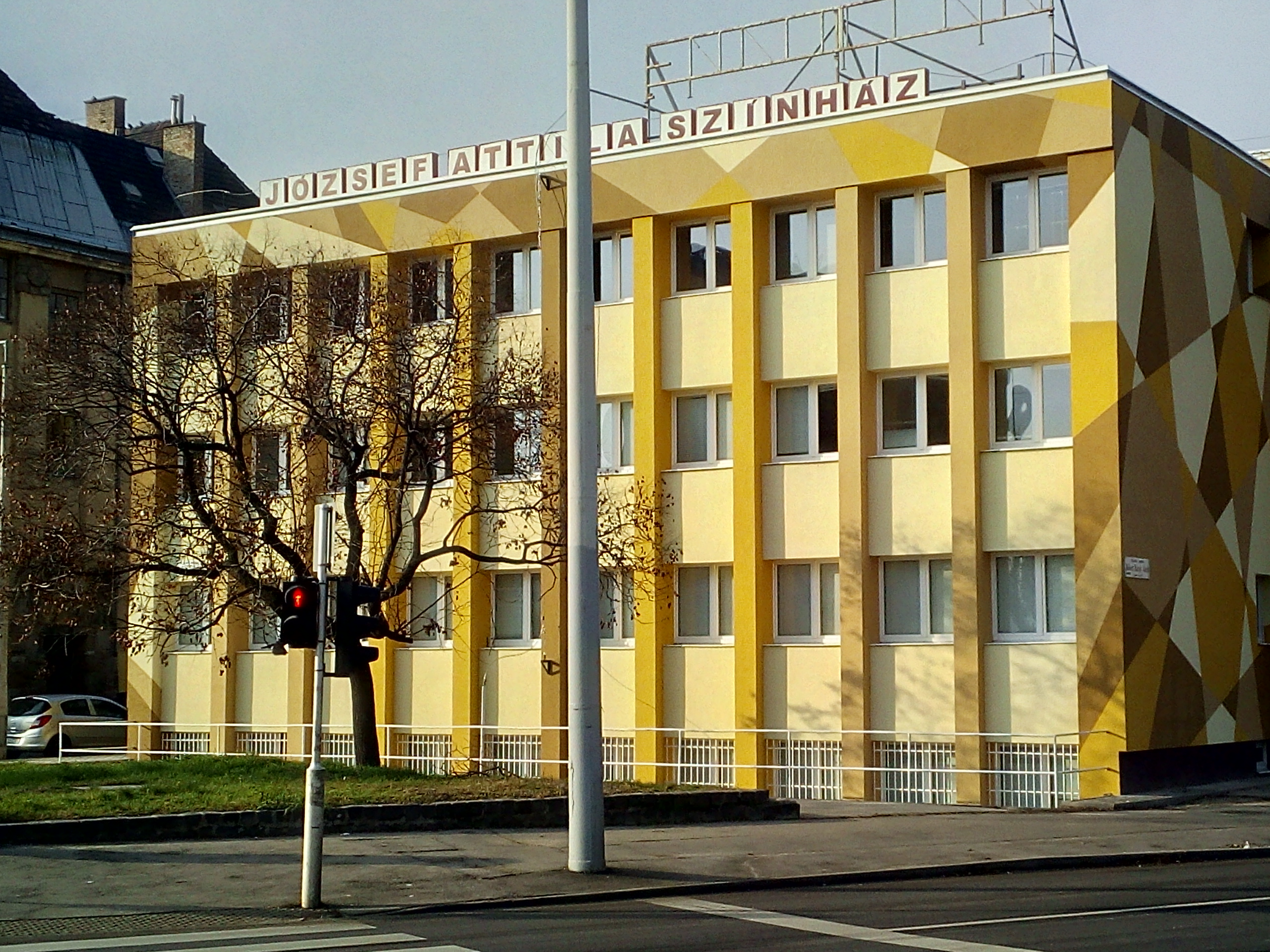 József Attila Theatre (Róbert Károly Boulevard side), Budapest, Hungary